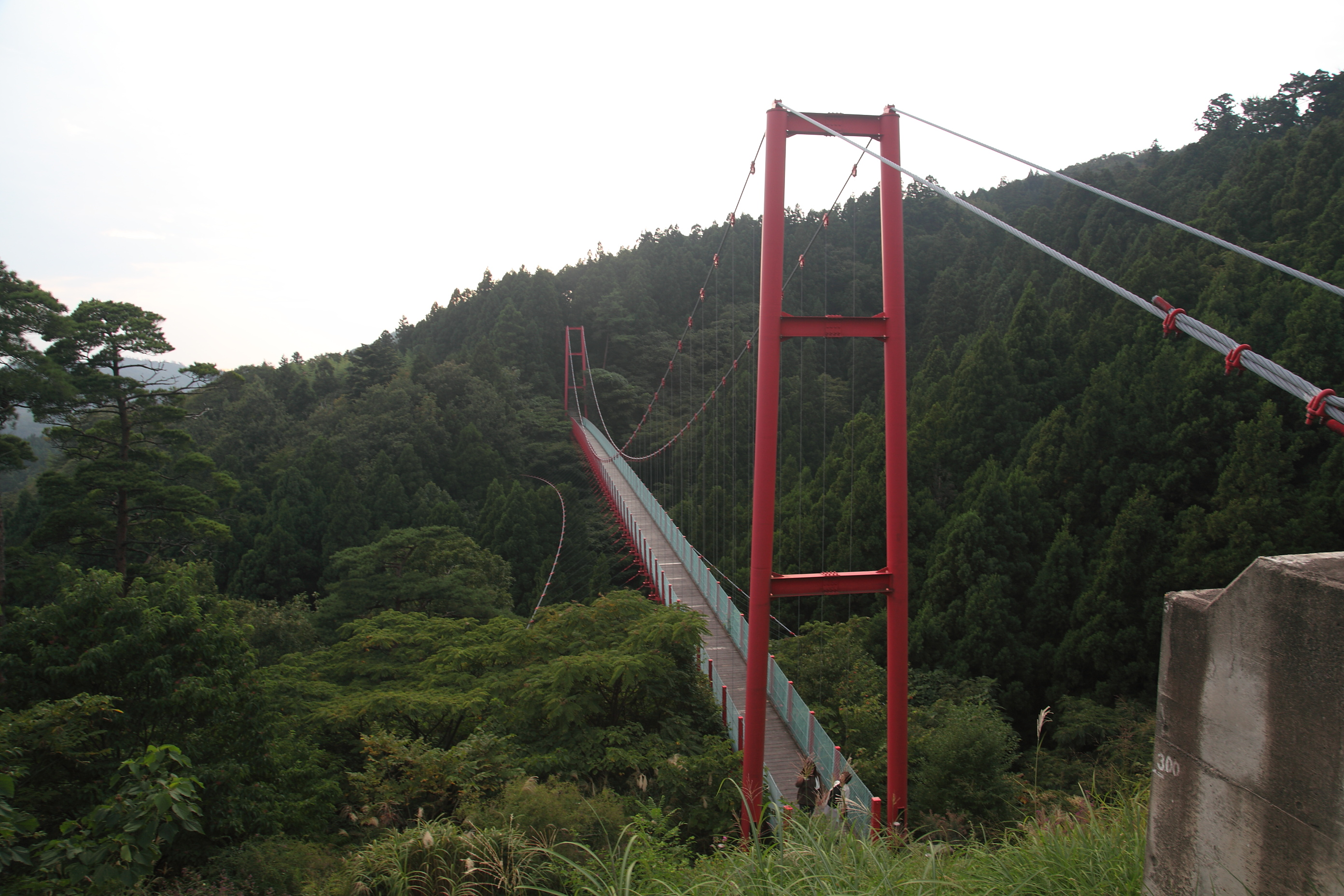 The Sengandou (or Sengando) suspension bridge, Kugami Mtn., Niigata, Japan